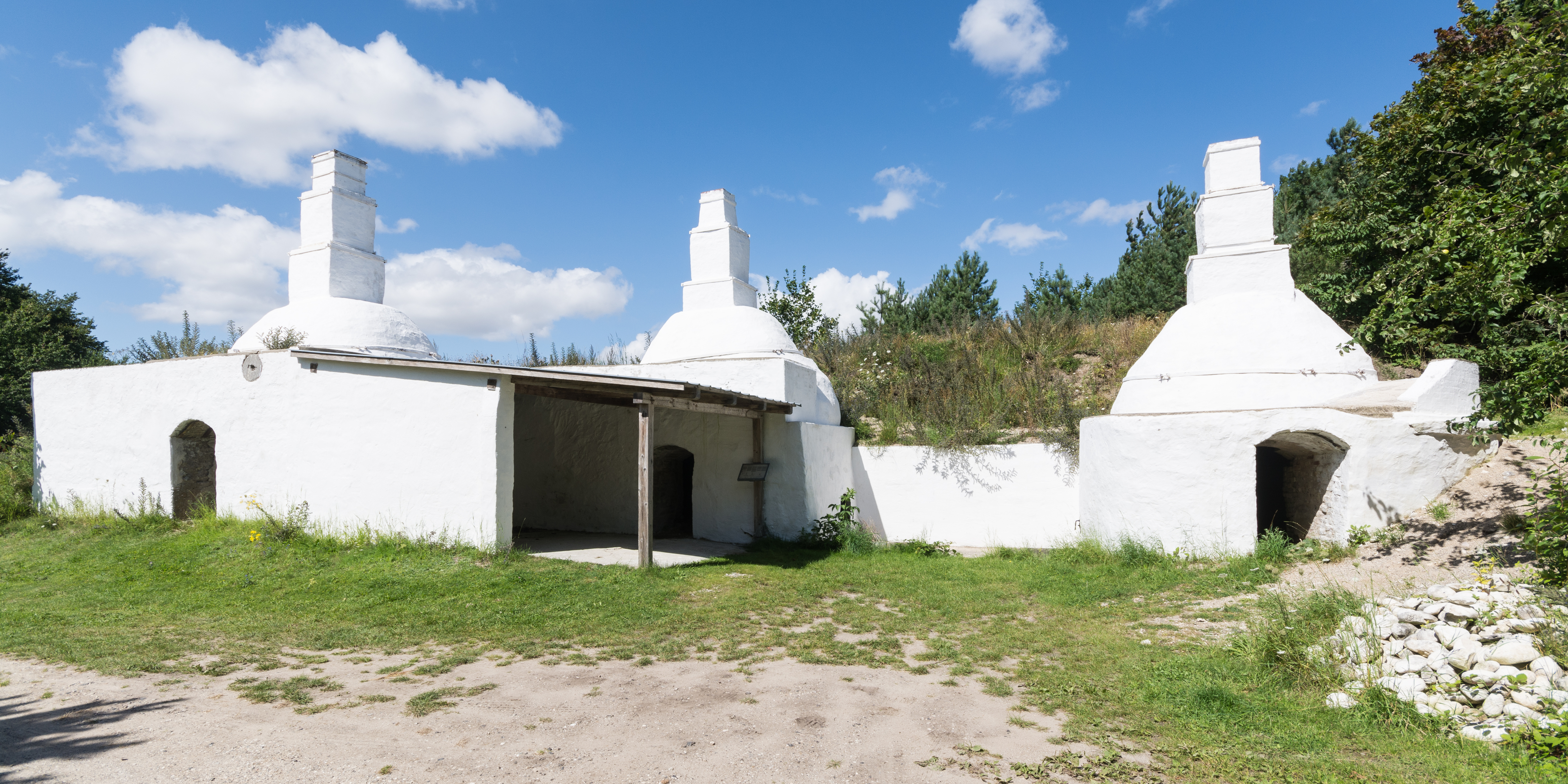 Lime kilns at Rugårdsvej near Balle (Syddjurs Kommune).